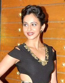 Rakul Preet Singh at Filmfare Awards held on 24 January 2014